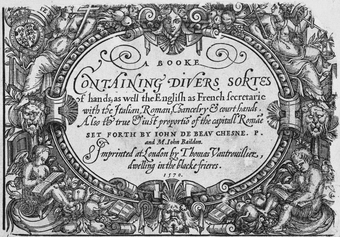 Title page of Beauchesne's 'Book containing diverses sortes...' (1570)